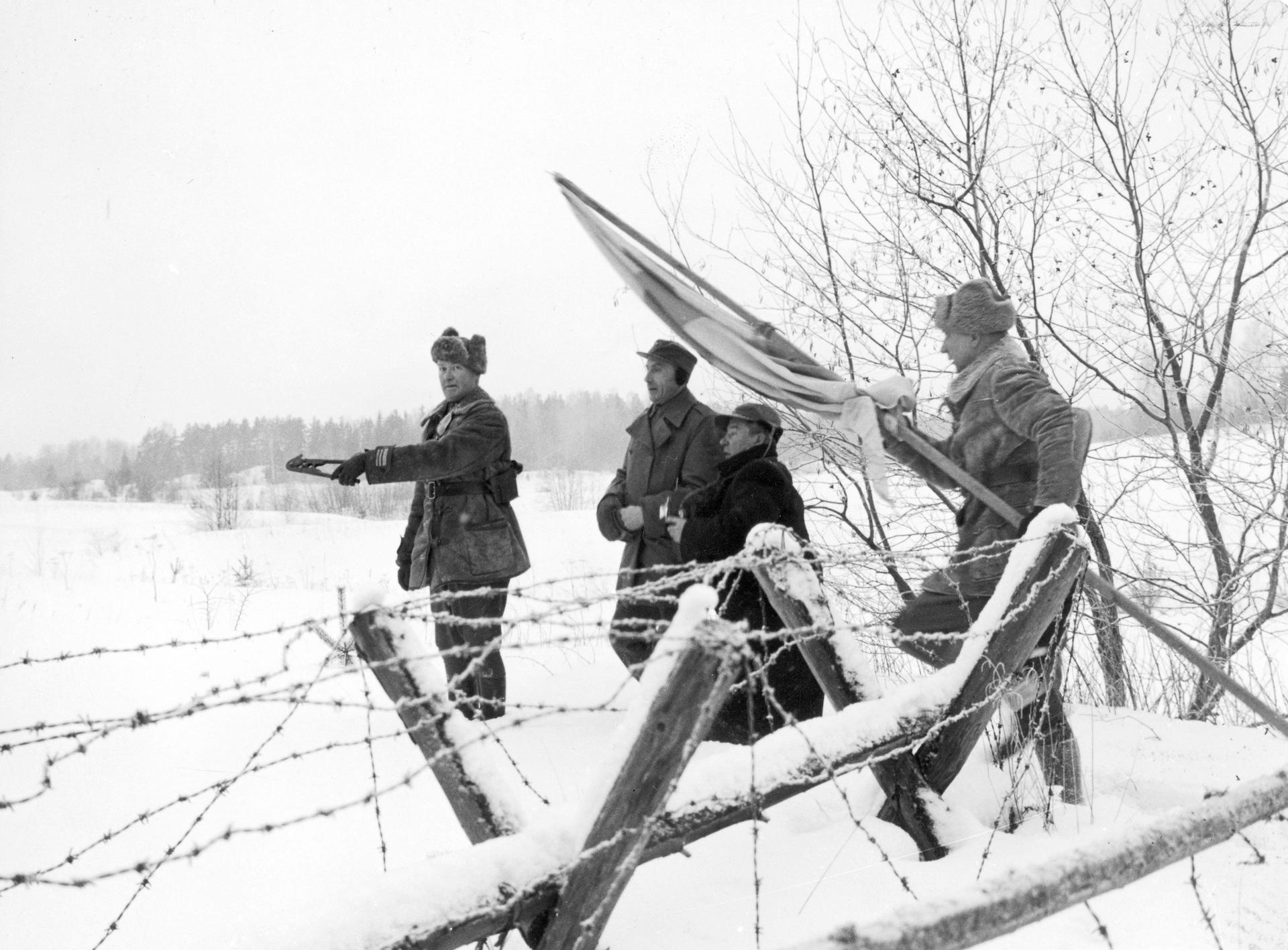 Photograph of Finnish soldiers returning to the Porkkala lease area.